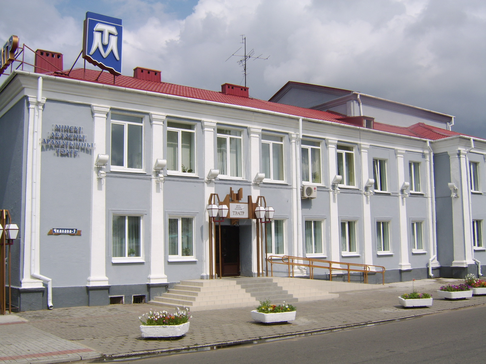 Theatre in Maladzechna (Belarus)